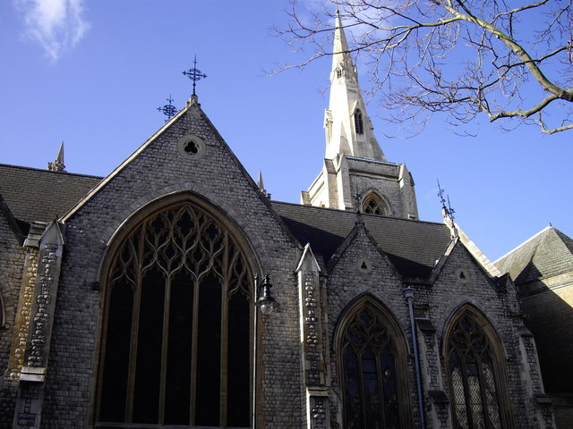 St. Michael's Chester Square, near to Chelsea, Kensington And Chelsea, Great Britain. St. Michael's was completed in 1846 by Thomas Cundy II